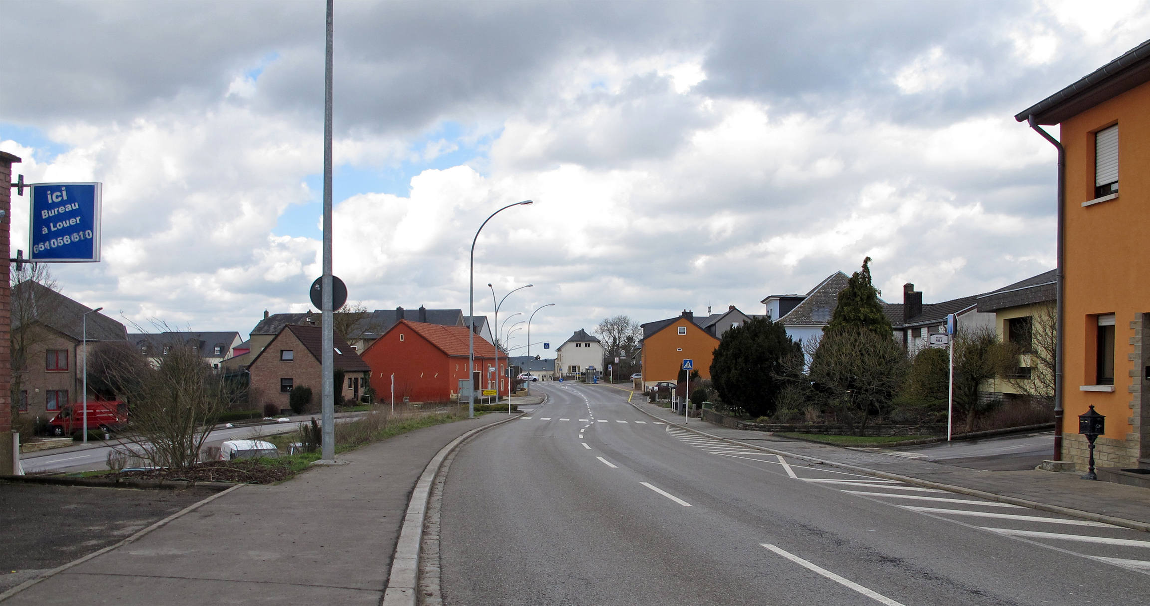 Main street in Bergem, Luxembourg